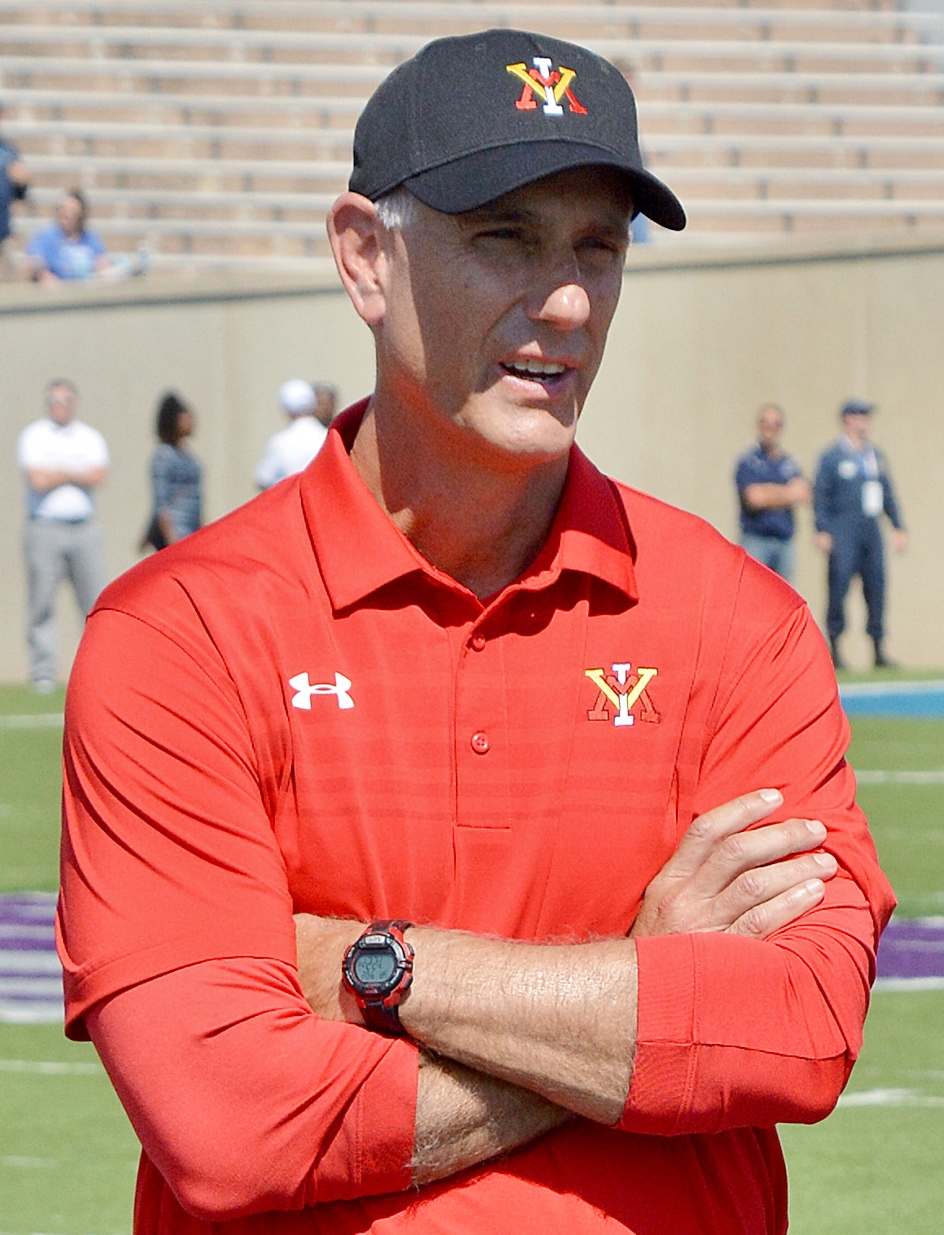 VMI head coach Scott Wachenheim before VMI's game at Air Force on September 2, 2017.